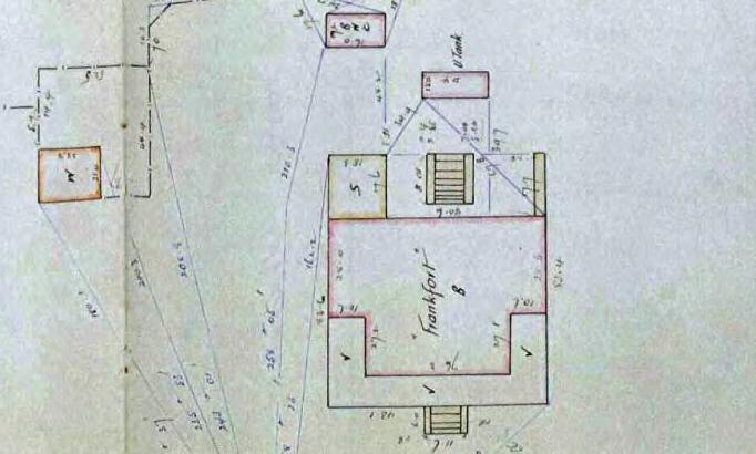 The “Blackwattle Sheets” - Public Work Department surveyors’ field books of the MWS & DB show “Frankfort” (now Stead House) as surveyed in January 1891 by surveyor D. C. White.